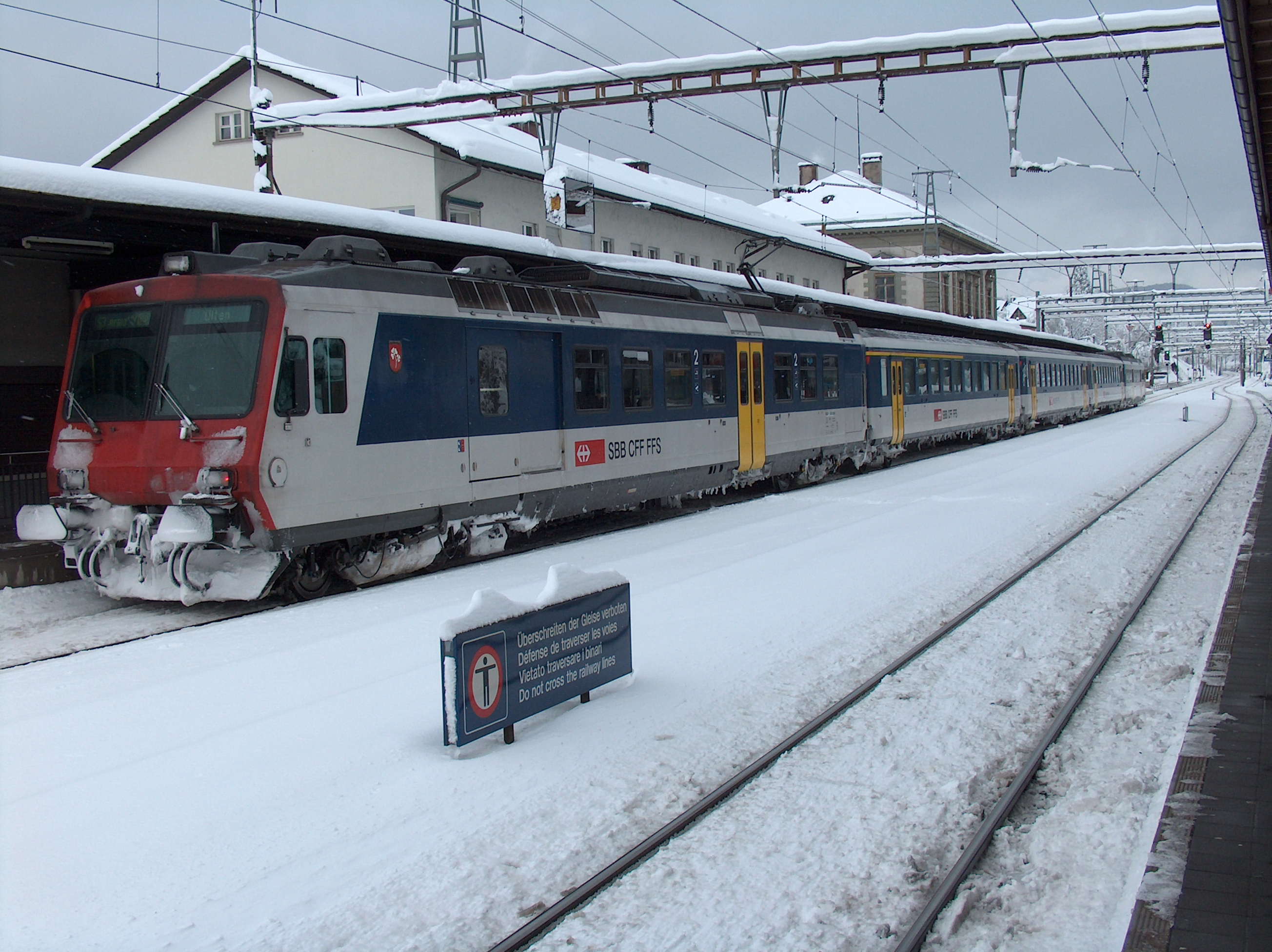 Liestal train station during winter. A SBB RBDe 560 stops.